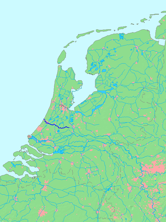 Location of a waterway (river/canal) in the Netherlends